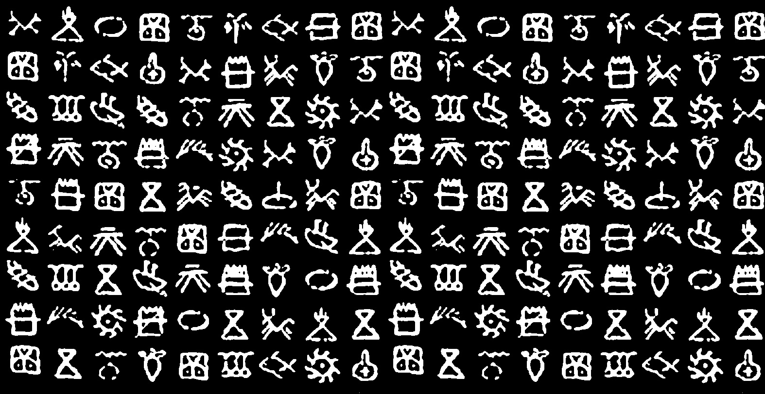 Yonaguni symbol